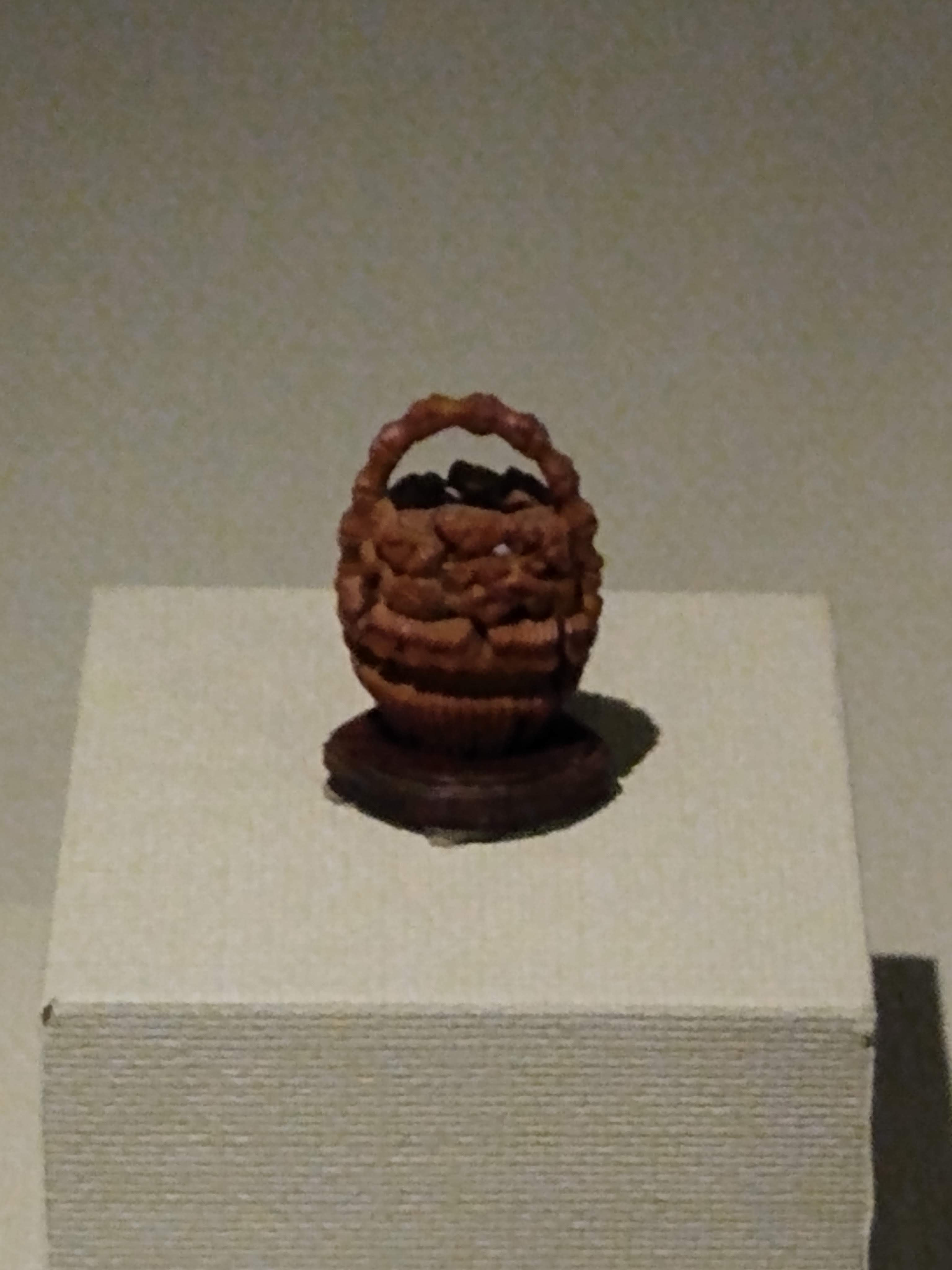 A carved peach pit in the shape of a basket on display at the National Palace Museum in Taipei. The label reads: 清 十八世纪 雕桃核花籃 Carved peach-pit in the form of a flower basket 18th century, Qing dynasty